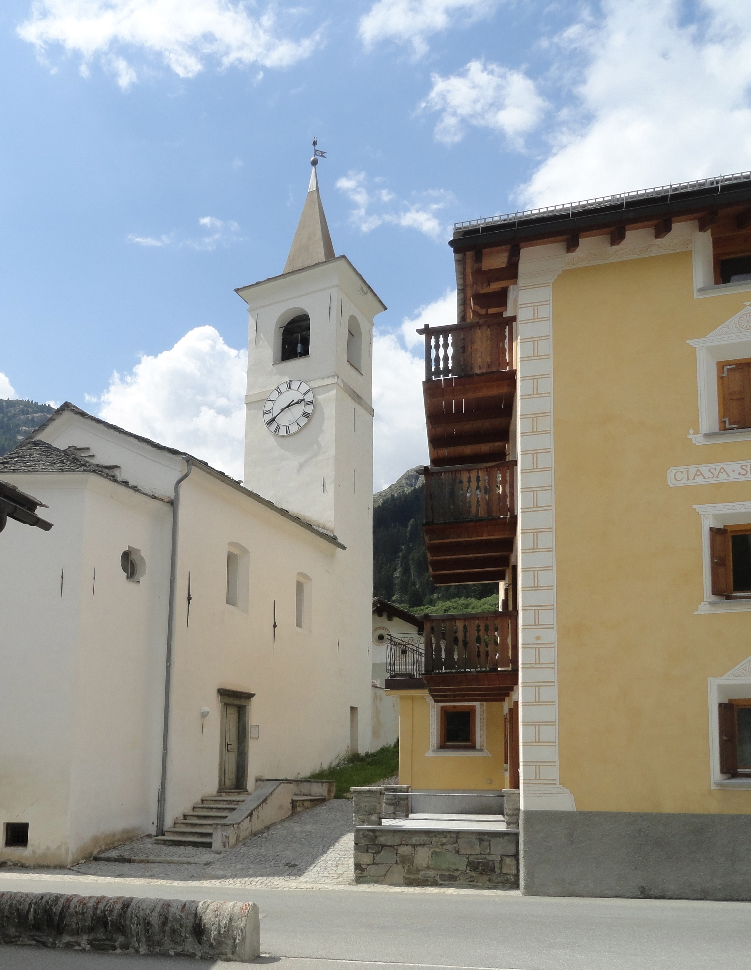 Reformierte Kirche Casaccia